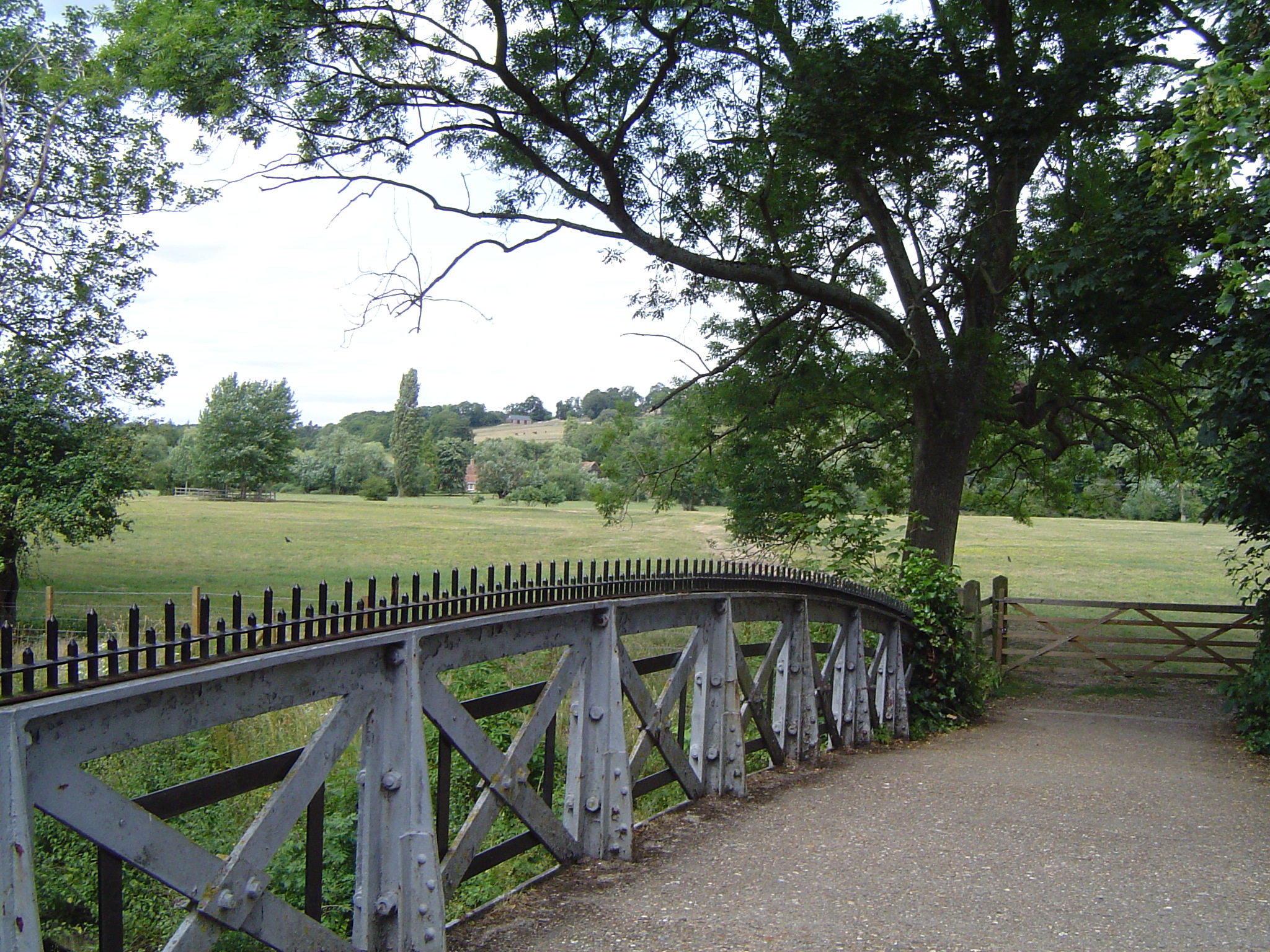 Brifge onto Saches Island on the River Thames near Cookham